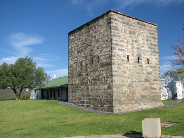 Trompetters Drift - one of a chain of forts built in 1835 on the Eastern Cape frontier, South Africa. Photographed 2006-07-18 F.F. Jacot-Guillarmod